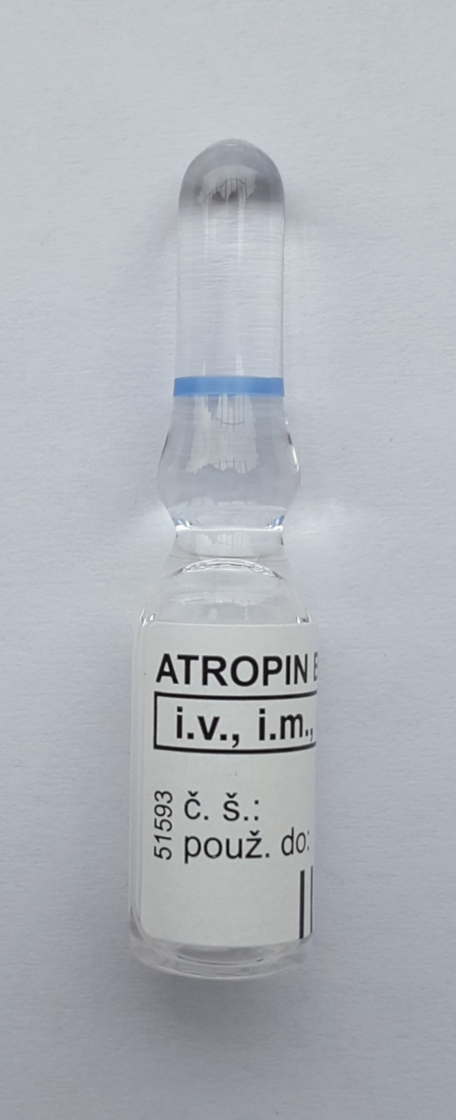 atropine 0,5mg/ml vial